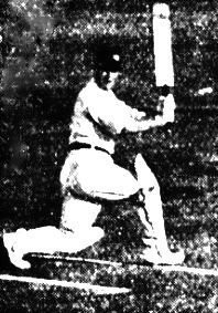 Roy Kilner batting in the final Test against Australia, 1924–25 (Cropped from a larger image)